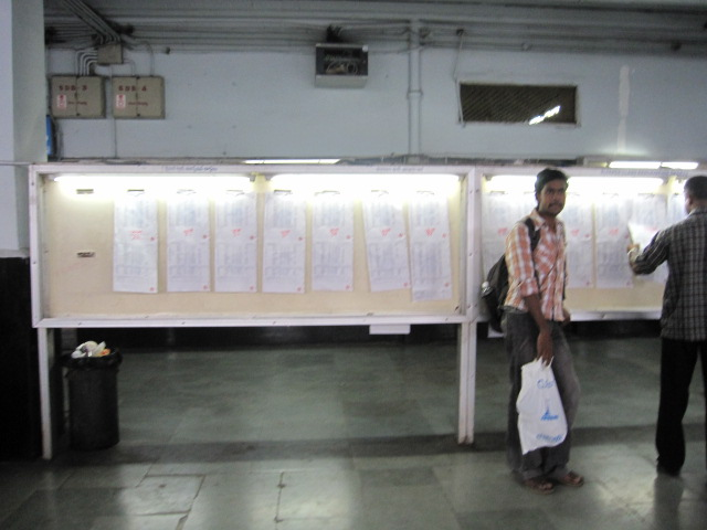 The charts at Secunderabad Railway Station.